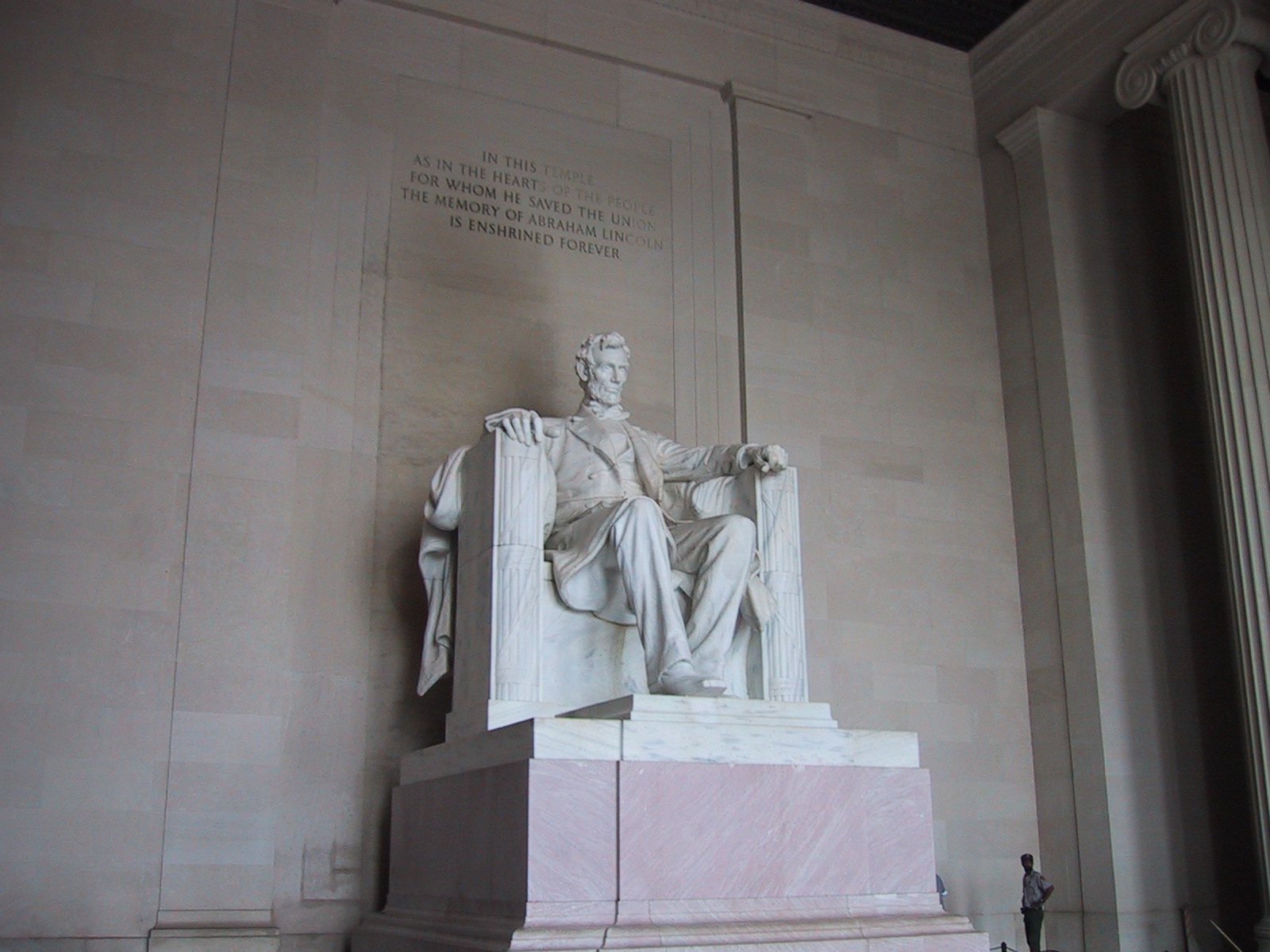 Lincoln Memorial